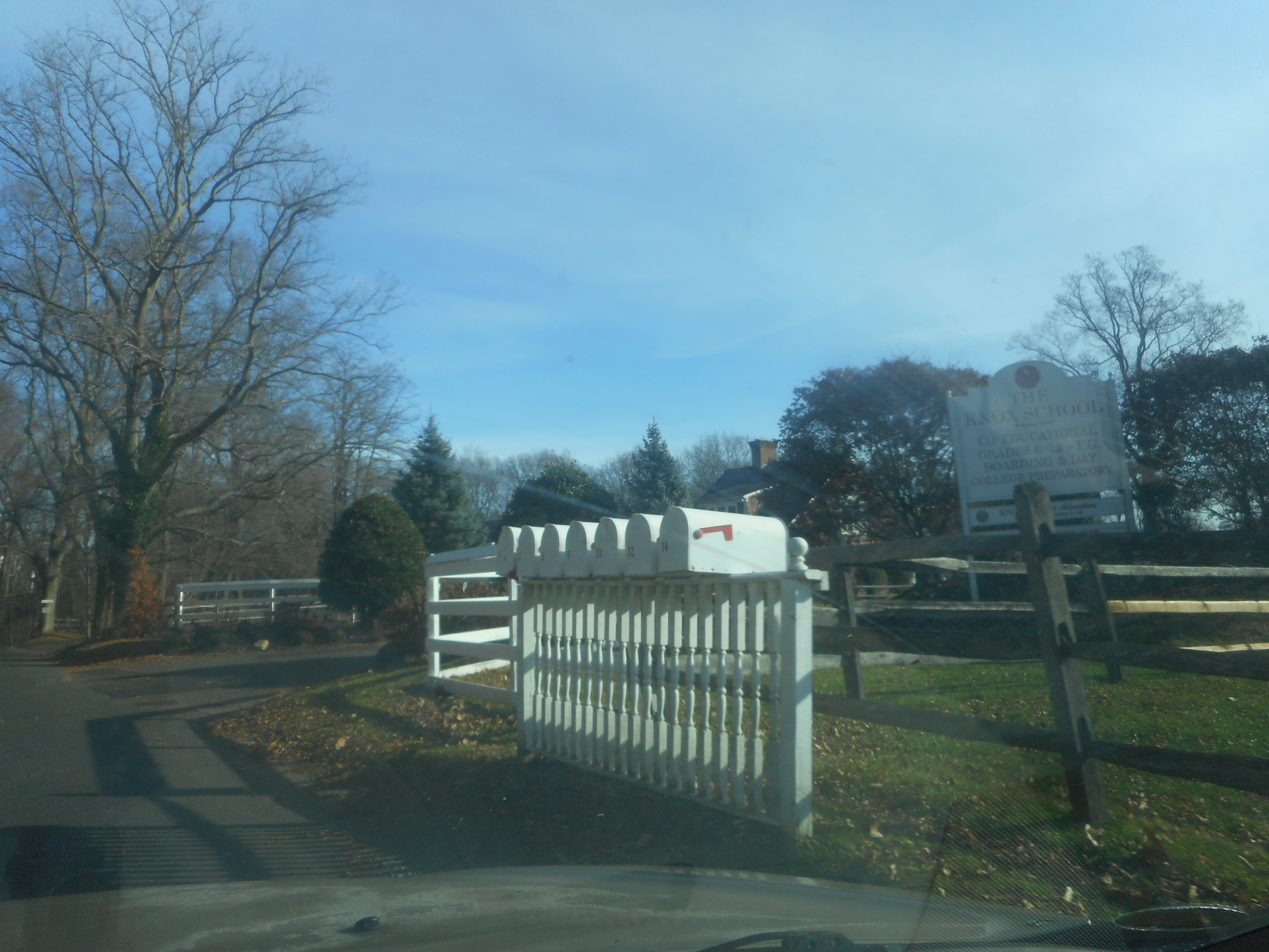 Quick shot of the entrance to The Knox School, a private boarding school and "Summer Adventures" camp at 541 Long Beach Road in Nissequogue, New York. The school was also the original site of a mansion known as the "Land of Clover," also known as the Lathrop Brown Estate, which has been on the National Register of Historic Places since August 9, 1993.